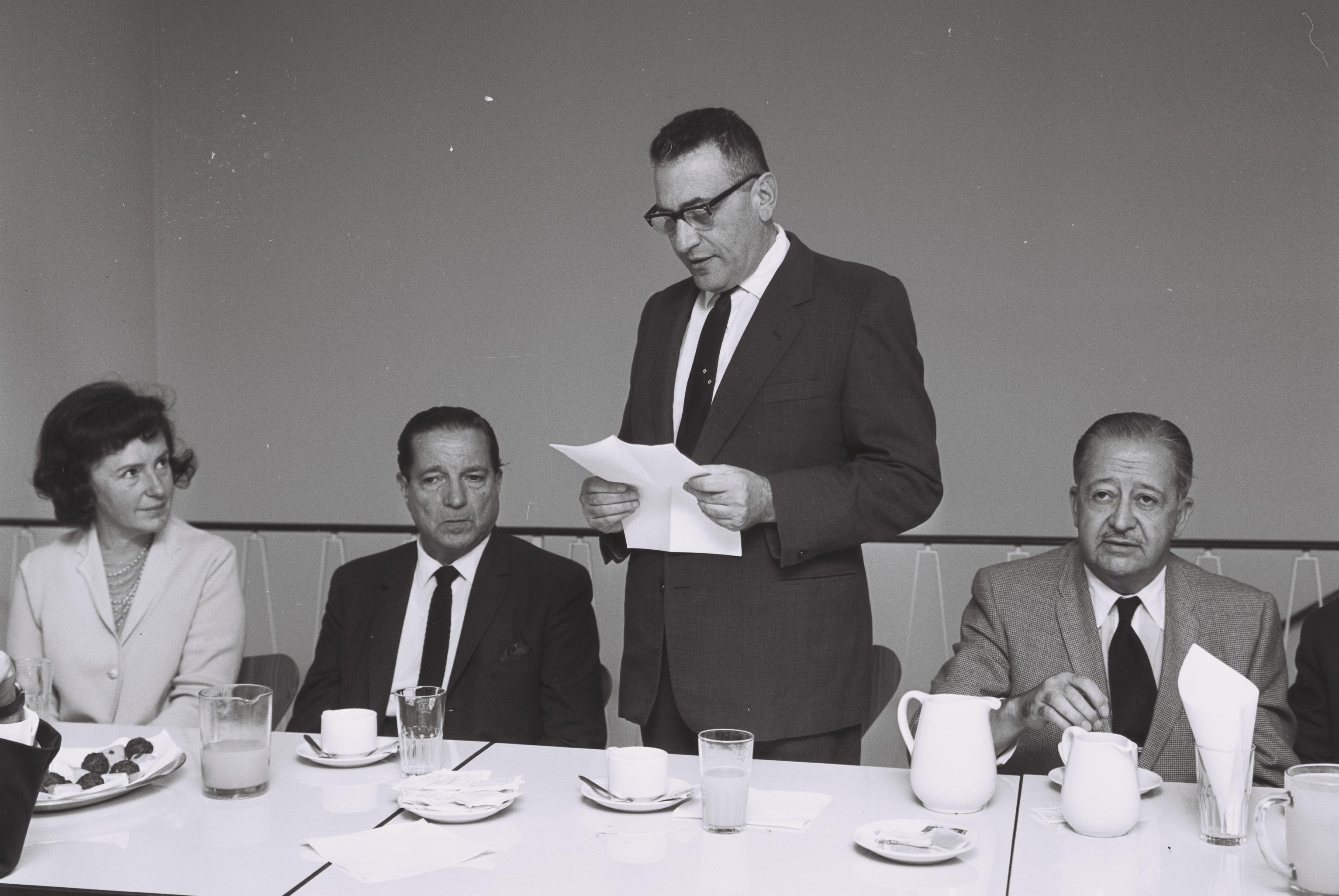 Secretary General of the OAS dr. José Antonio Mora arriving at Lod airport for an oficial visit to Israel. in photo, dir. gen. of foreign ministry Levavi reading welcome speech.